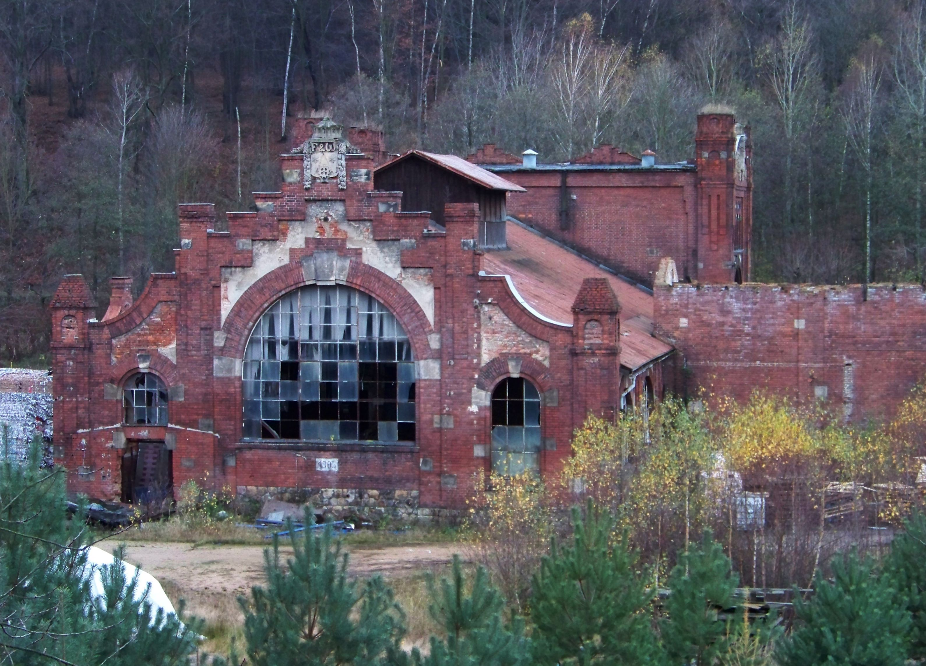 Chrastava-Chrastava II, Liberec District, Liberec Region, Czech Republic. Andělohorská street, a heating and power plant of the former textile factory.